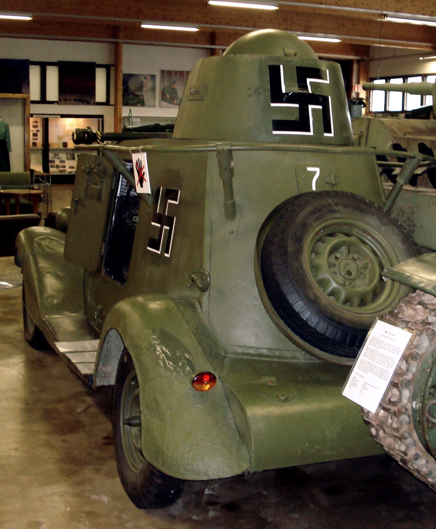 Soviet BA-20 armored car, in Finnish markings, , displayed in Finnish Tank Museum (Panssarimuseo) in Parola. Photo taken on July 14, 2006. Source: Photo by me, User:Balcer.